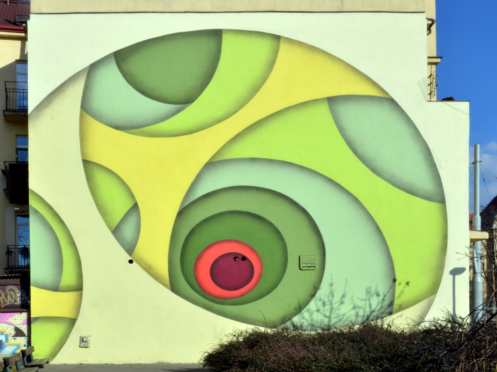 Jan Kaláb, Wall painting, Mrštíkova, Prague